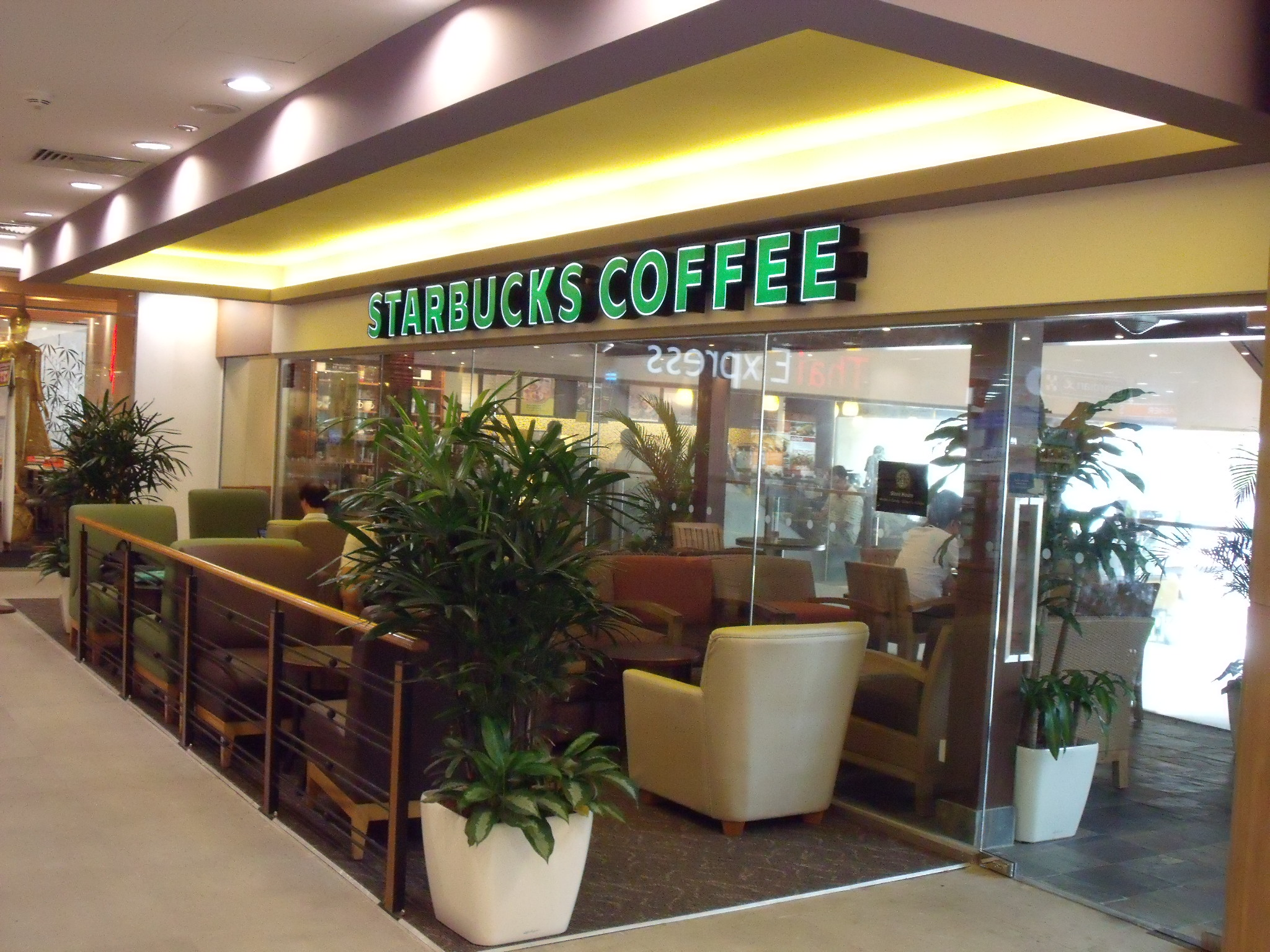 Starbucks at West Coast Plaza, Singapore